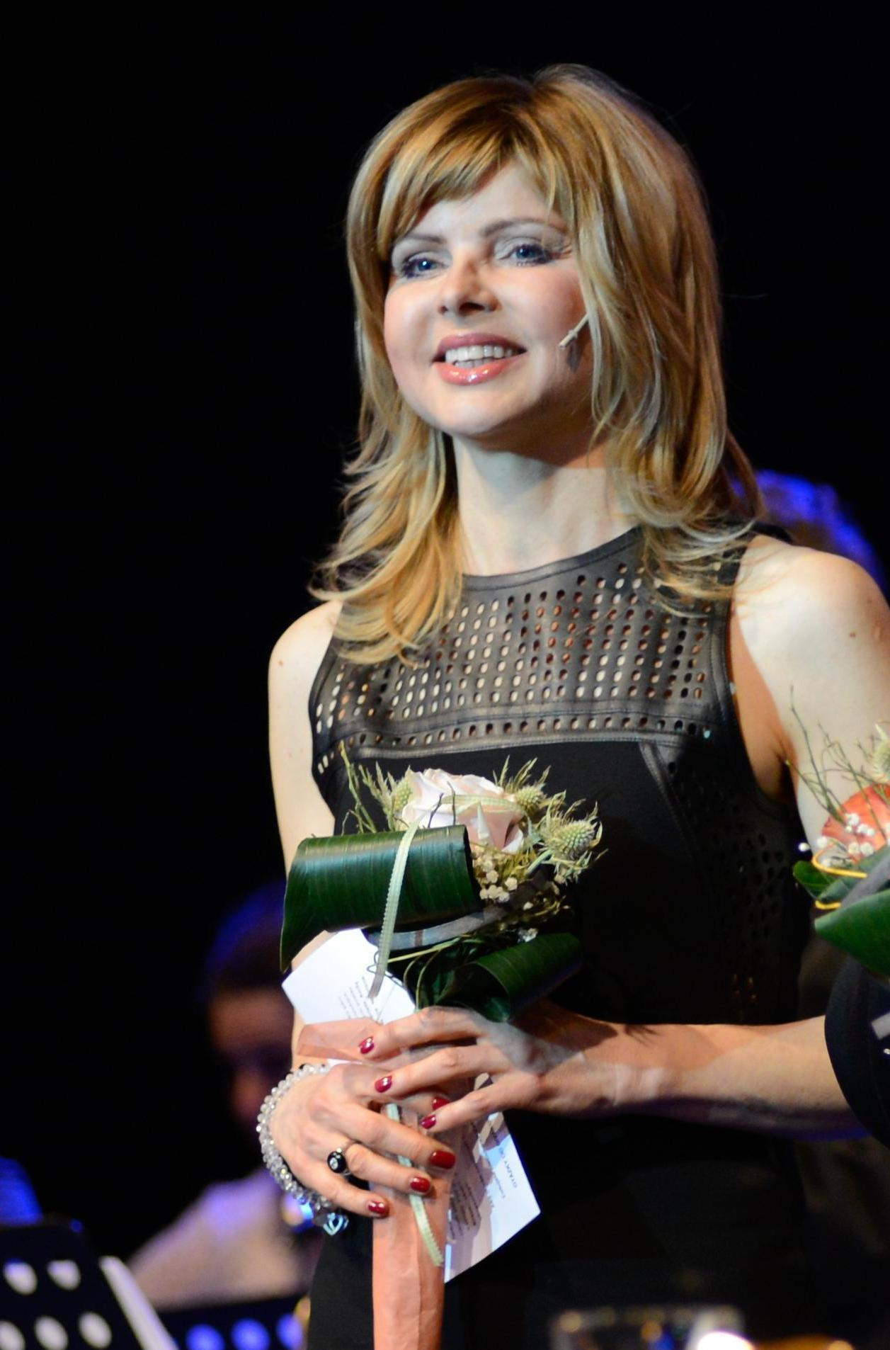 Soňa Müllerová while hosting Vitajte Doma, a live talk show presented at the Mestské divadlo Žilina, Slovakia, photographed by Eduard Kudláč, using Nikon D600.